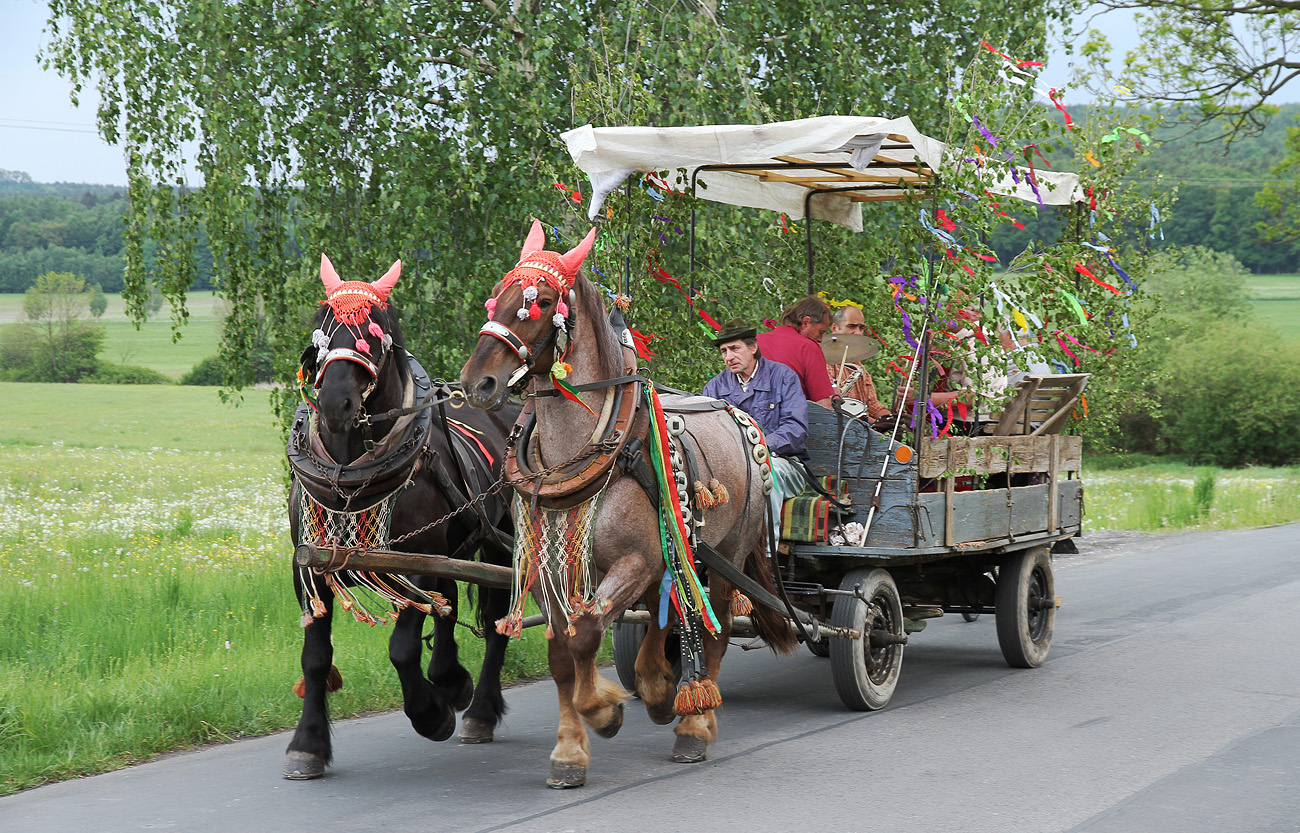 Křivoklátsko - Máje; nazdobený povoz při májích v Kublově.